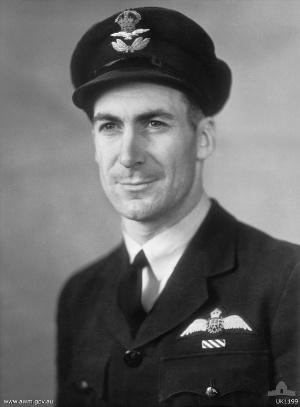 Portrait of Charles Curnow Scherf, an Australian flying ace of the Second World War who was credited with 14½ aerial victories with an additional nine aircraft destroyed on the ground.